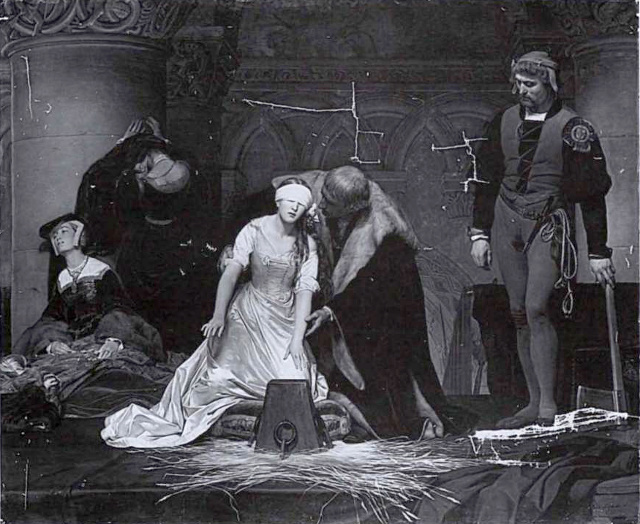 Damaged Execution of Jane Grey by Delaroche as it appeared in the 1970s, after cleaning but before proper restoration.